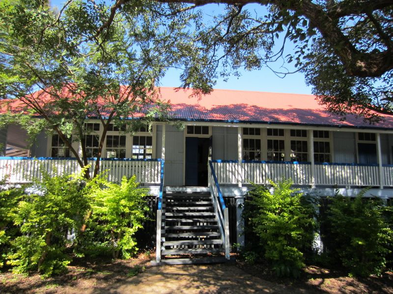 Sectional School Building (Block C); north elevation, view from north (EHP, 2 June 2015)